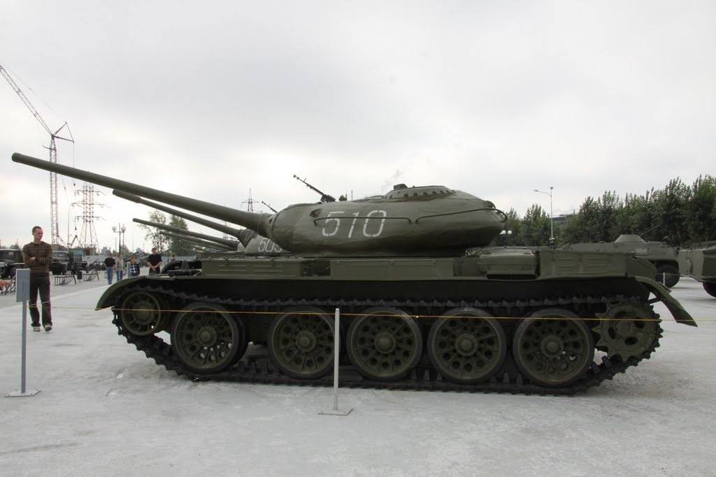 Verkhnyaya Pyshma Tank Museum 2011